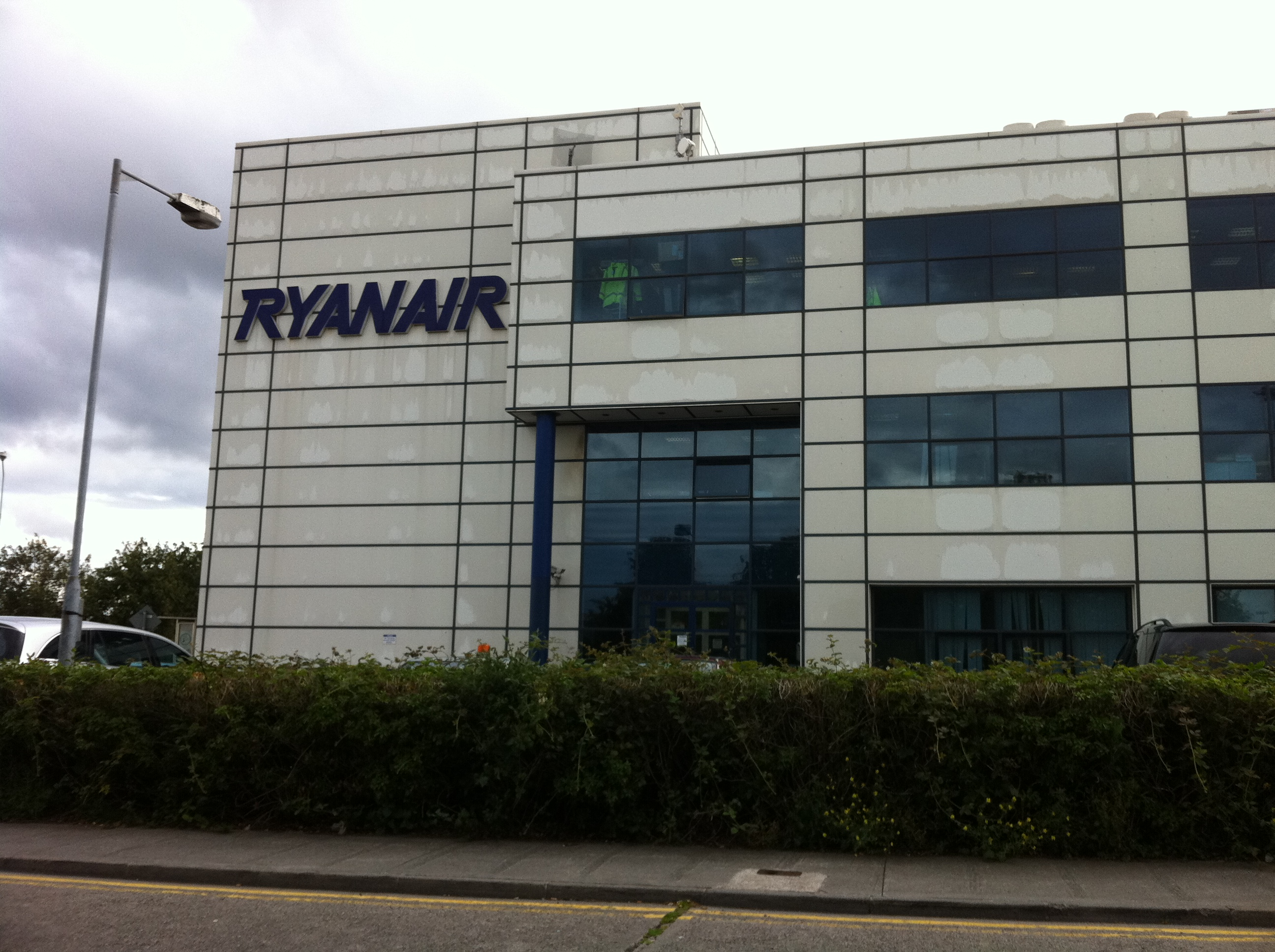 Ryanair Headquarters, Dublin Airport